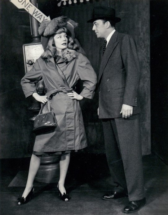 Haila Stoddard & Edmon Ryan in the Elmer Rice's play Dream Girl, Broadway - publicity still (cropped)